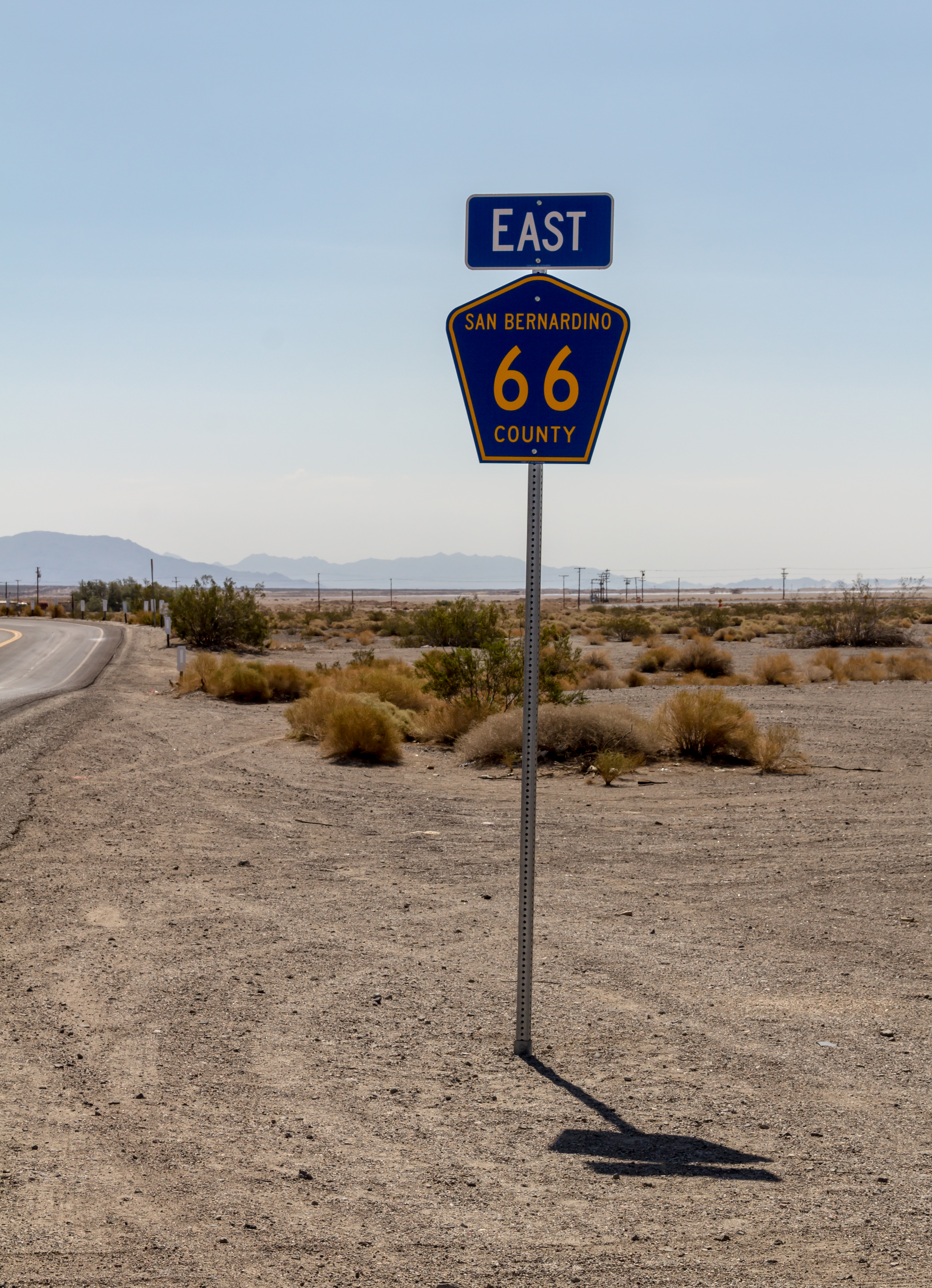 Sign at the Historic Route 66 near Amboy, California, USA